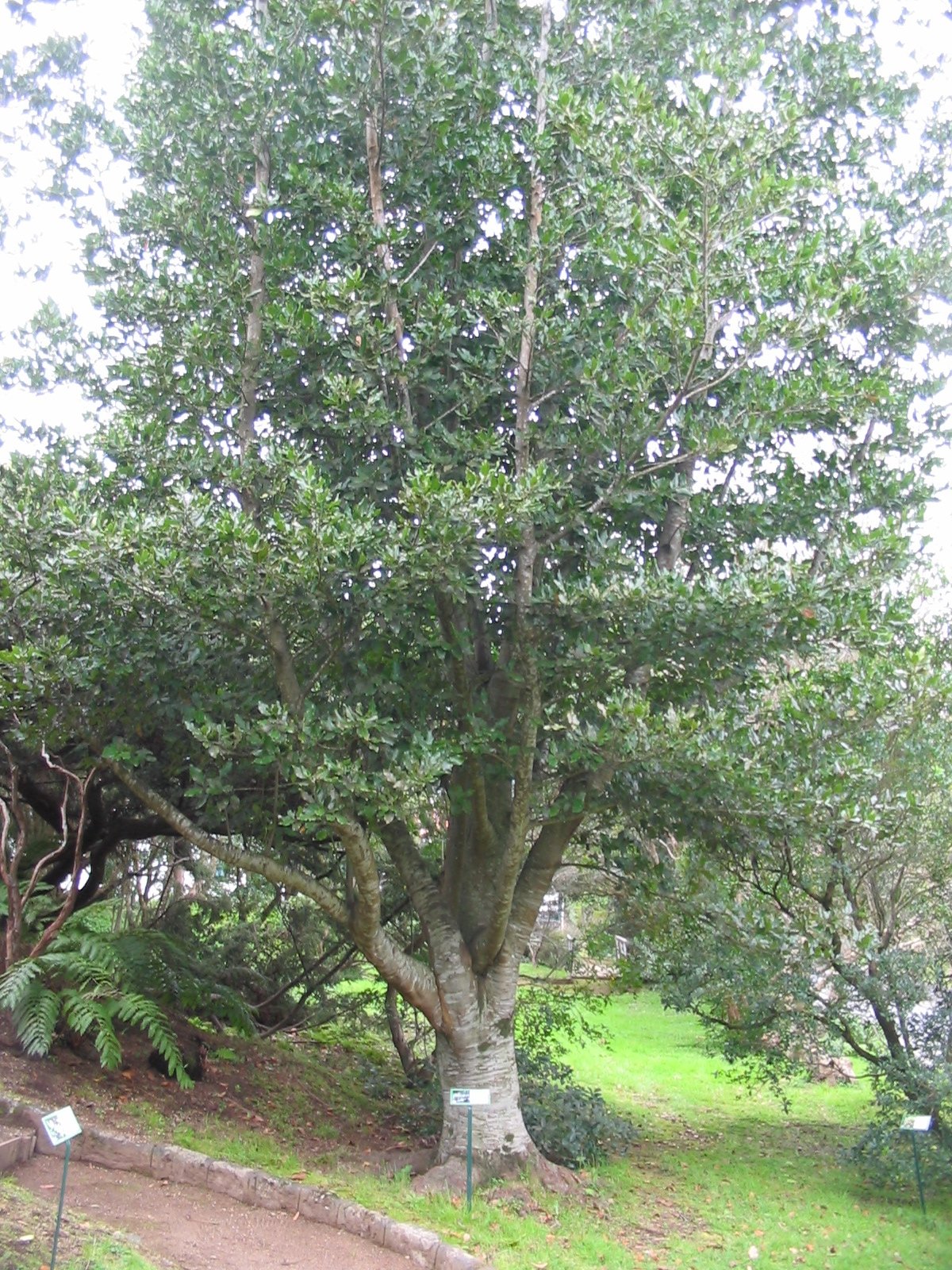 Stinklorbeerbaum (Ocotea foetens) - Habitus